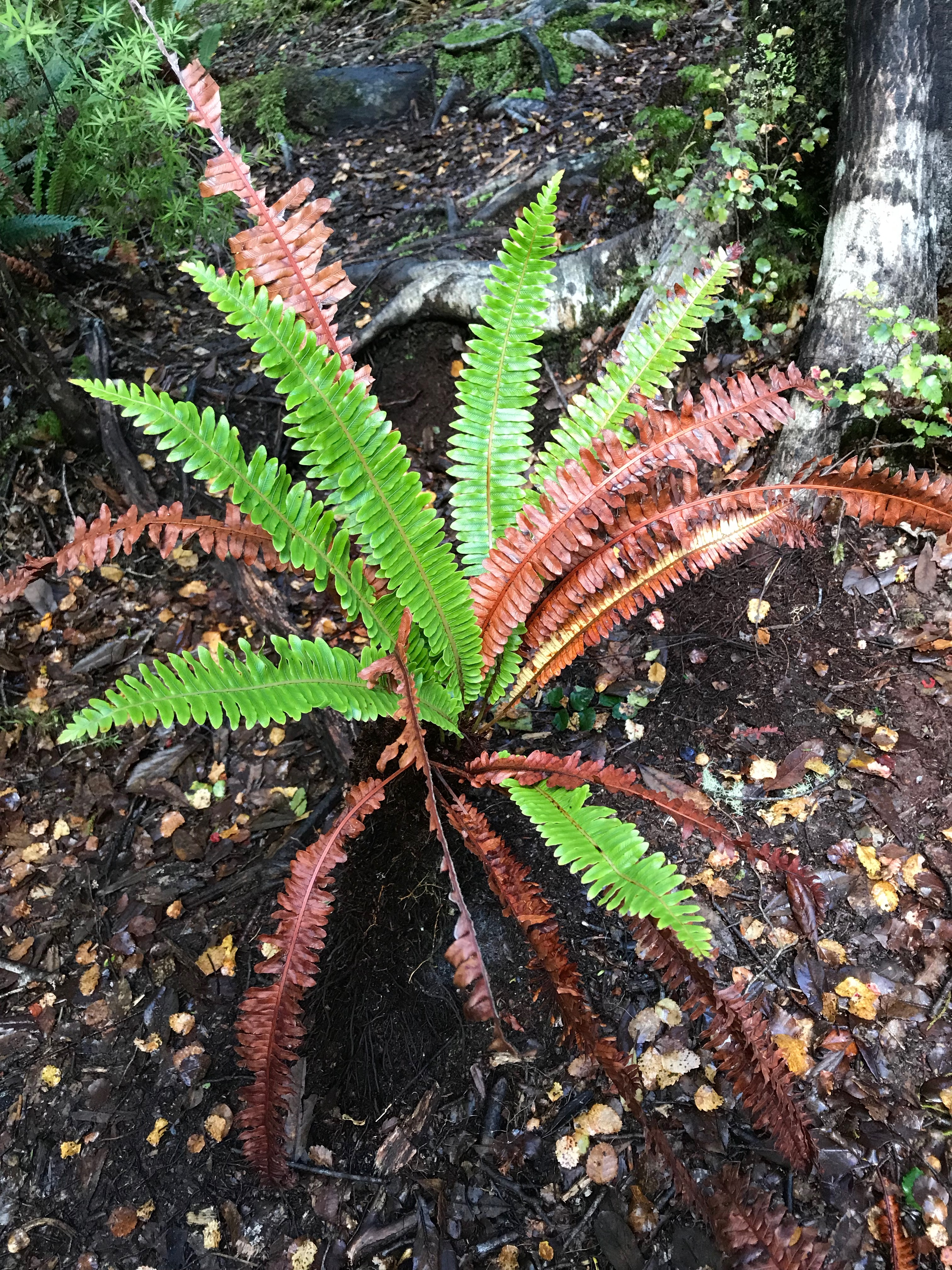 Crown fern (Lomaria discolor) beside Sclanders Creek, Maitai River, Nelson, NZ. Its "trunk" can be clearly seen.